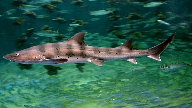 Banded houndshark (Triakis scyllium) at Himeji city aquarium, Hyogo, Japan.